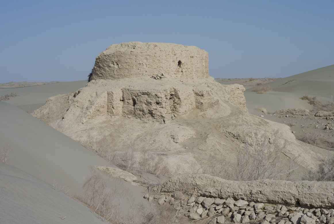 Rawak Stupa from above southwest wall — along the Silk Road in Xinjiang, West China. November 2008.